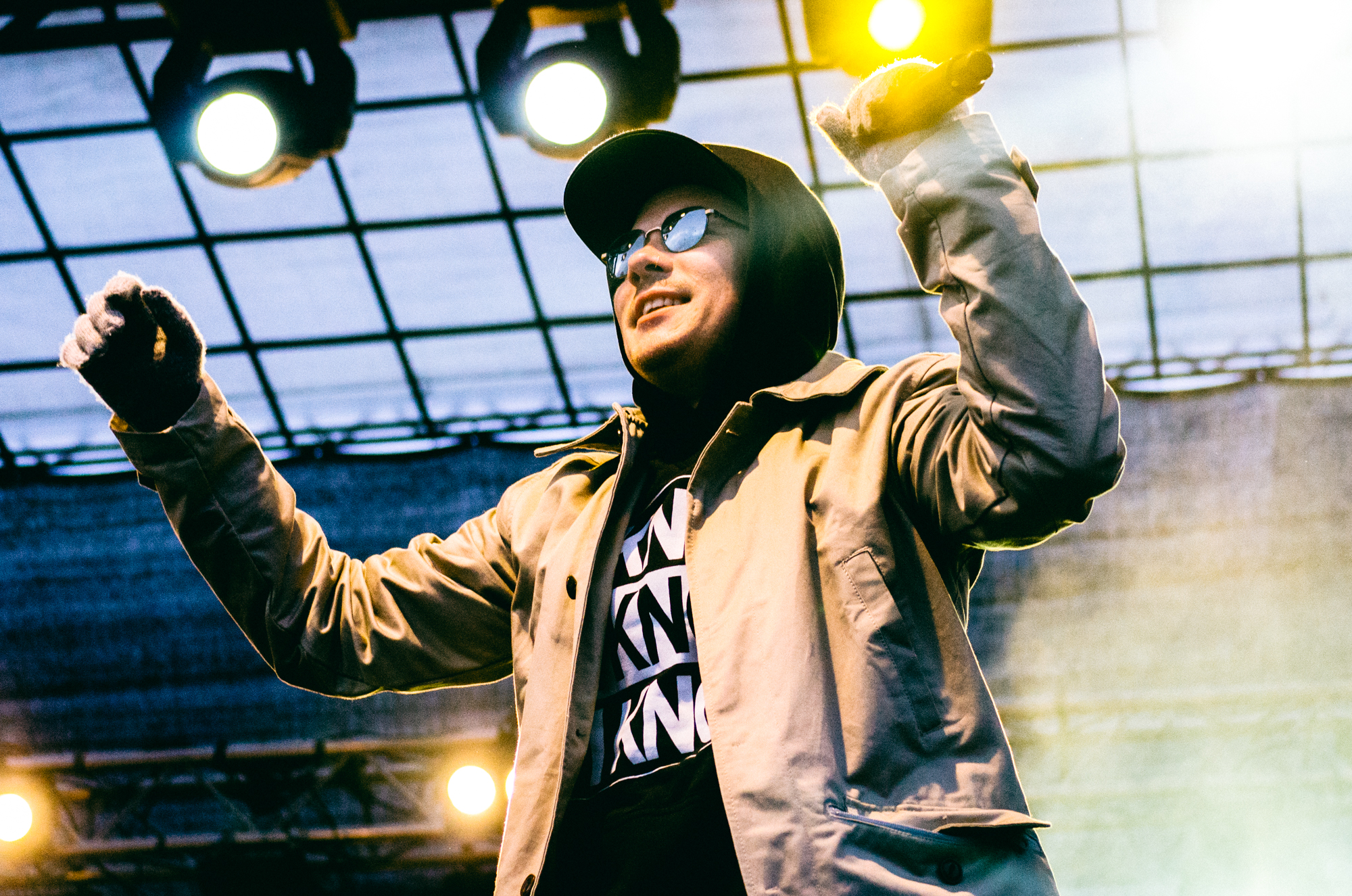 Ville-Petteri Galle, 2014 in Oulu, Finland